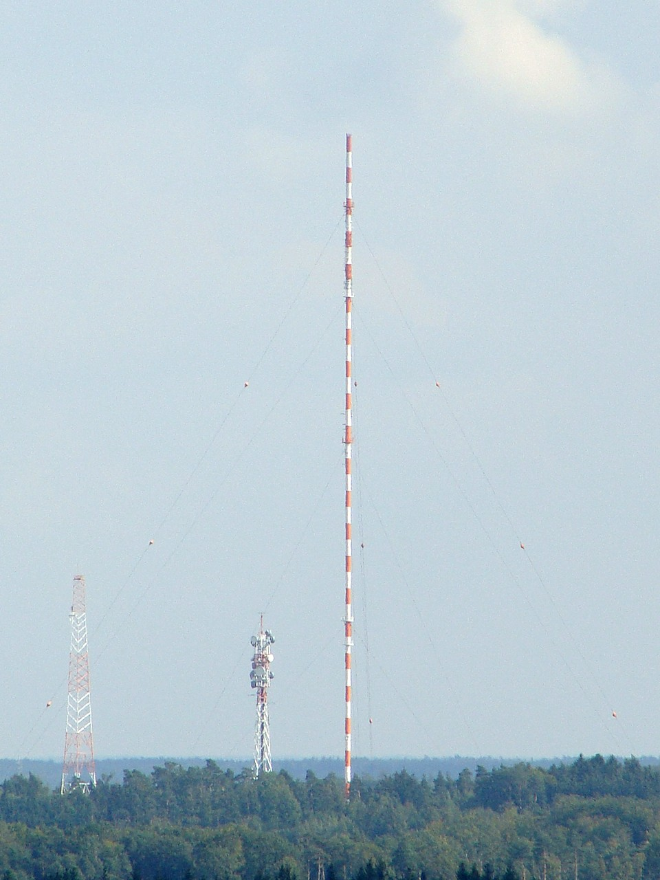 Radio Transmitter "Büttelberg"